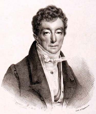 French dancer and choreographer Pierre Gardel (1758-1840)